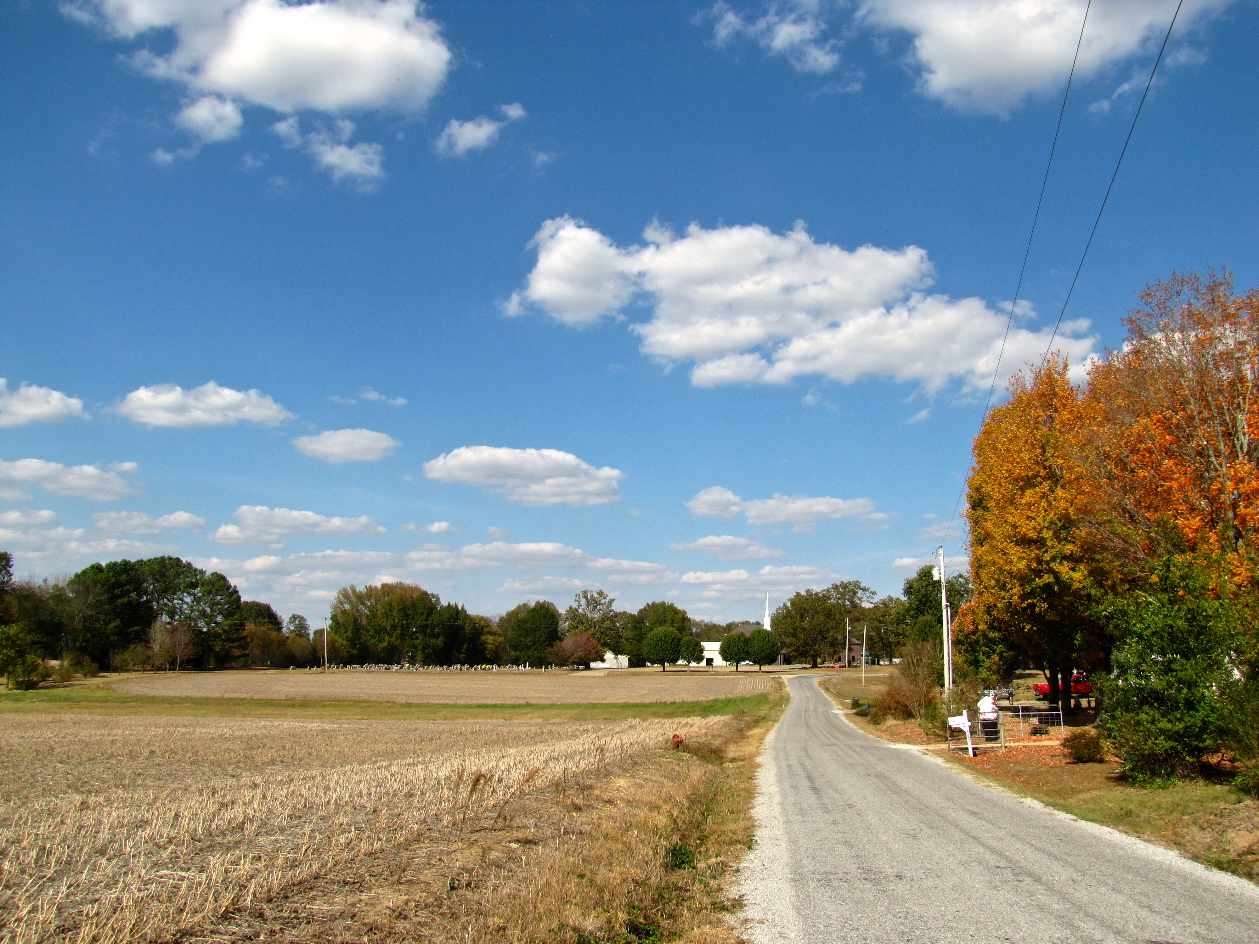 View along Legg Lane in the Liberty Grove area of Lawrence County, Tennessee, United States.